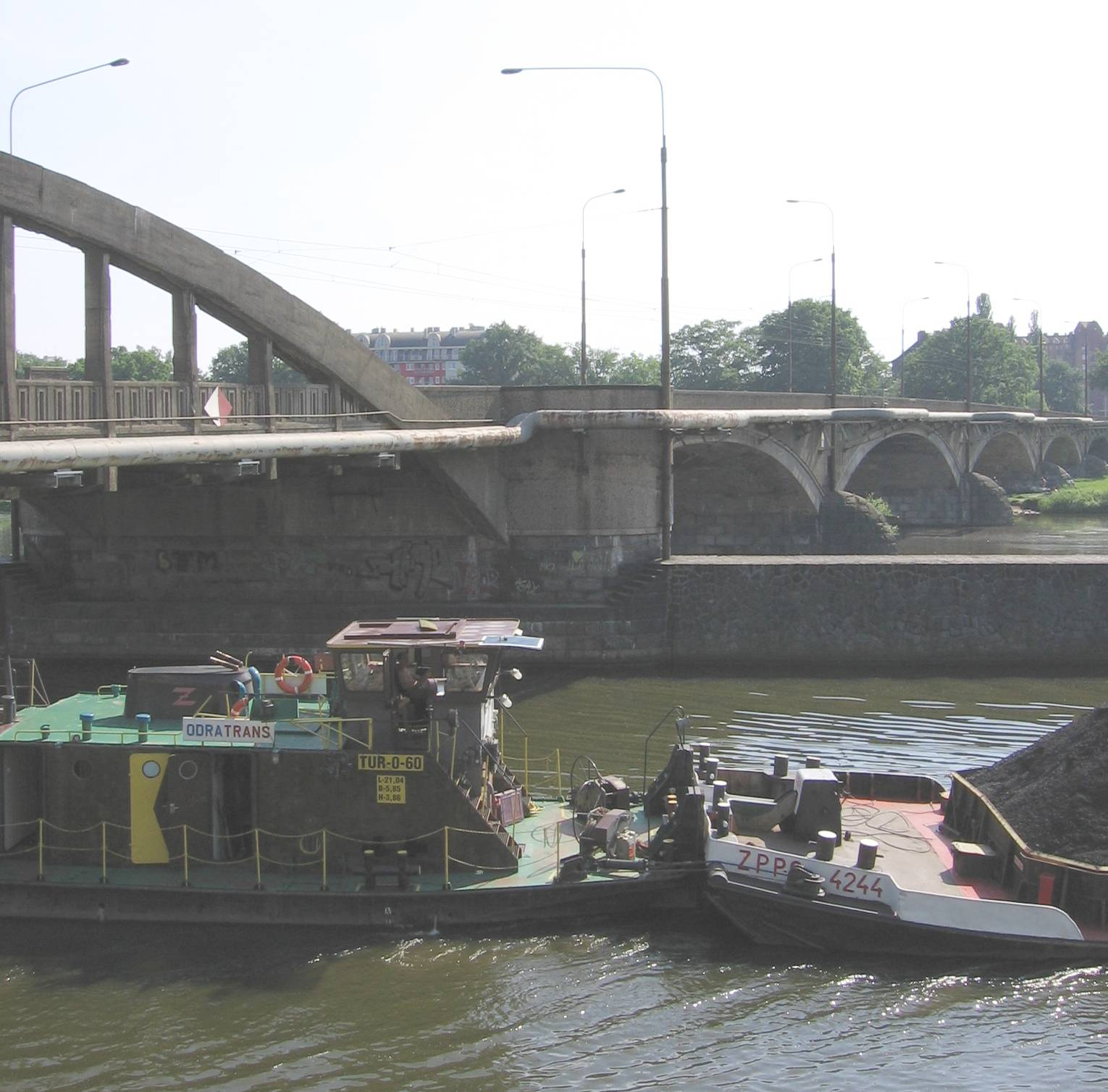 Wrocław, Poland - the Warsaw Bridge.